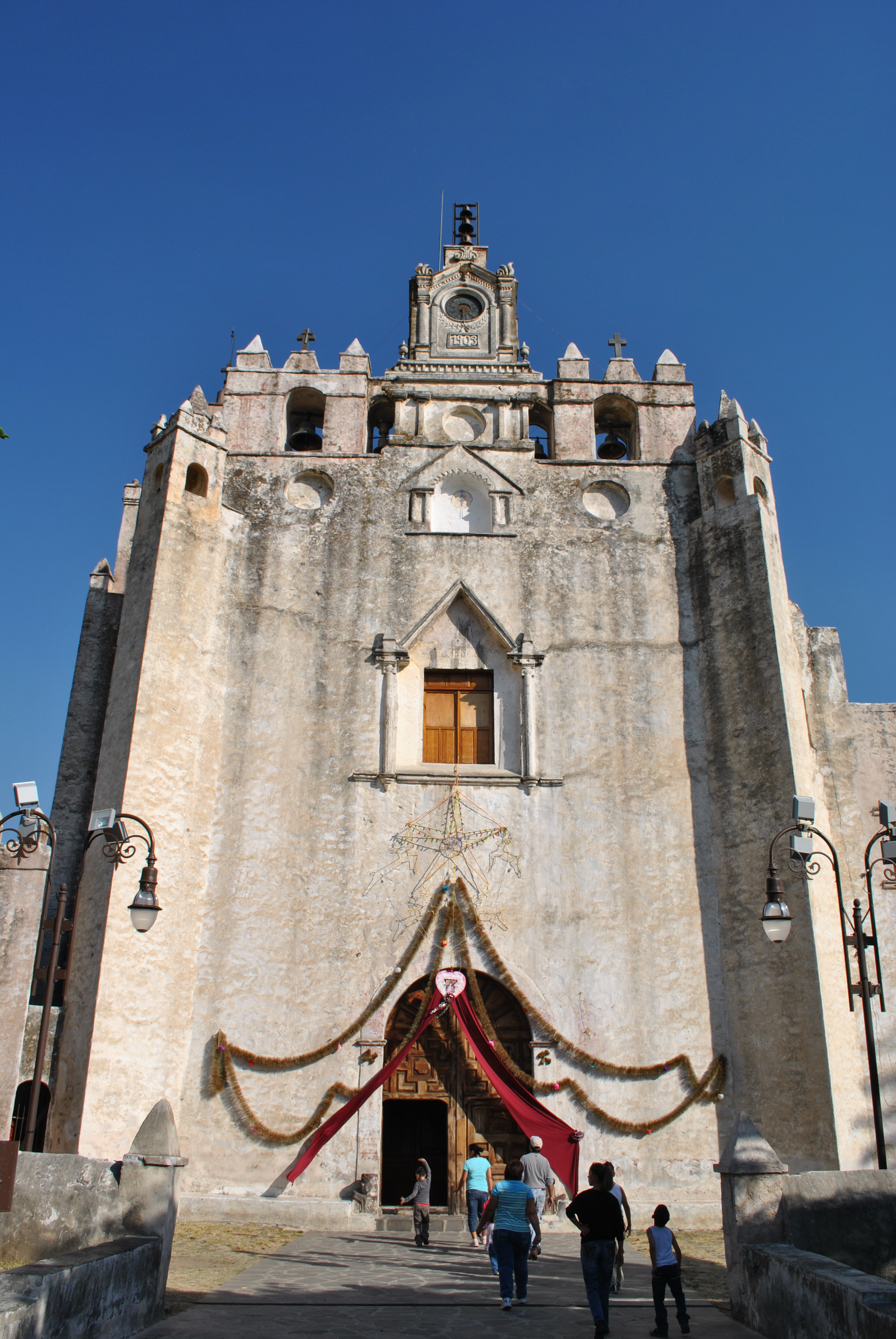 Church Facade of the San Mateo Apóstol y Evangelista monastery in Atlatlahucan, Morelos, Mexico.